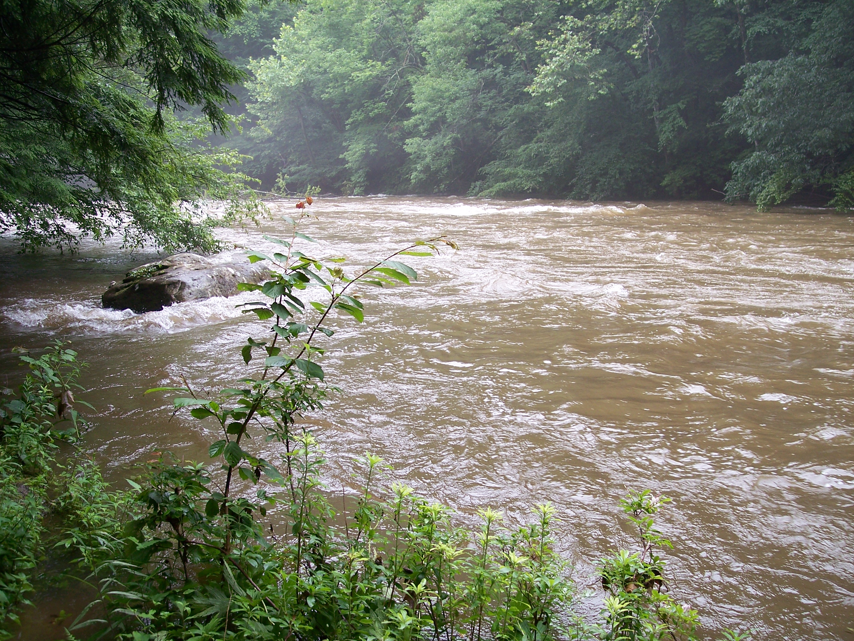 The Cranberry River at the Woodbine Picnic Area in the Monongahela National Forest in Nicholas County, West Virginia. The river is running high following heavy summer rains.